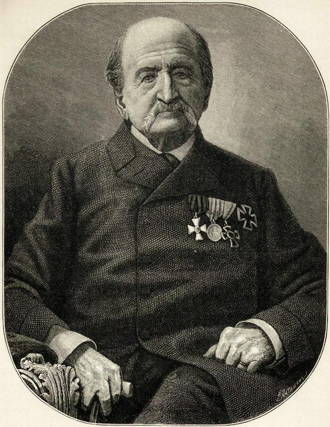 Muraviev-Apostol Matvey Ivanovich